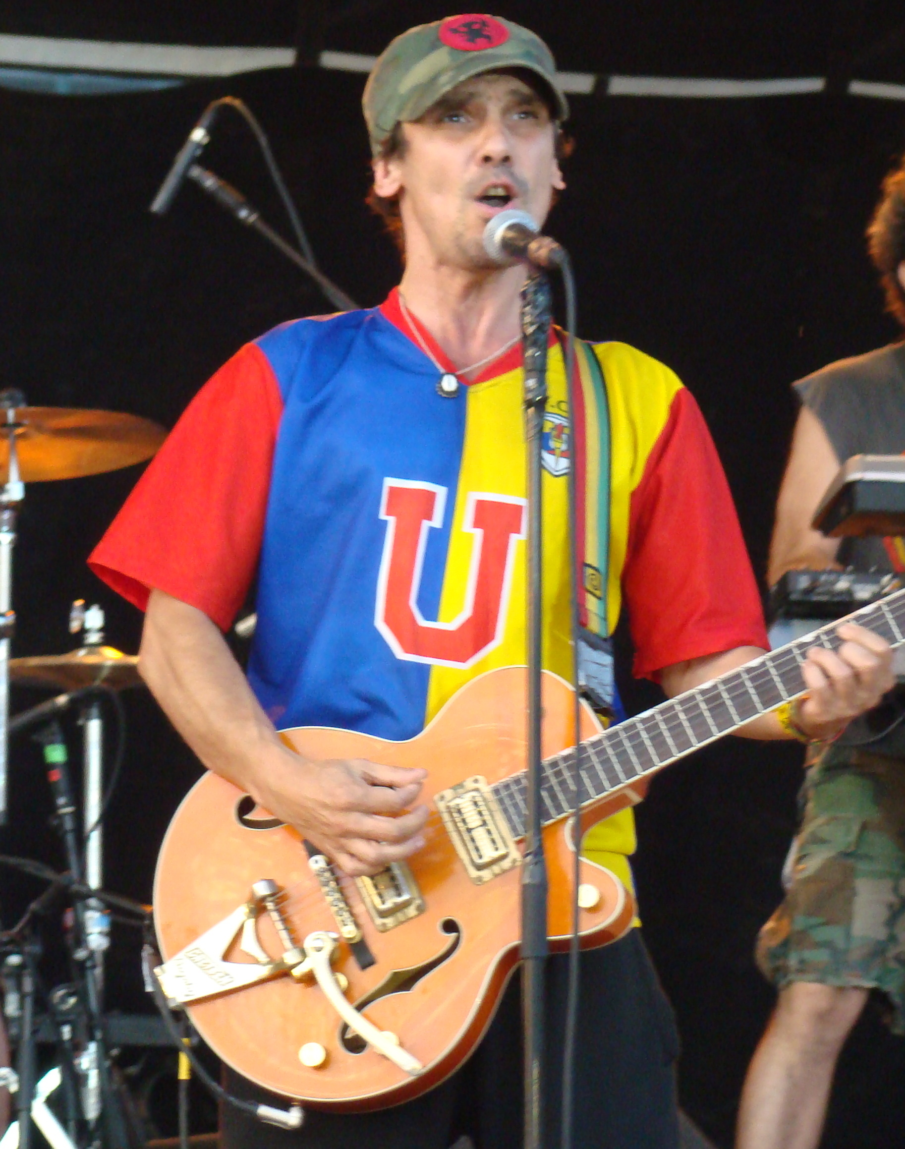 Concert of Manu Chao in Bondy (France) stadium Léo Langrange for Fête de la Musique and 20th edition of festival "Ya d'la banlieue dans l'air"